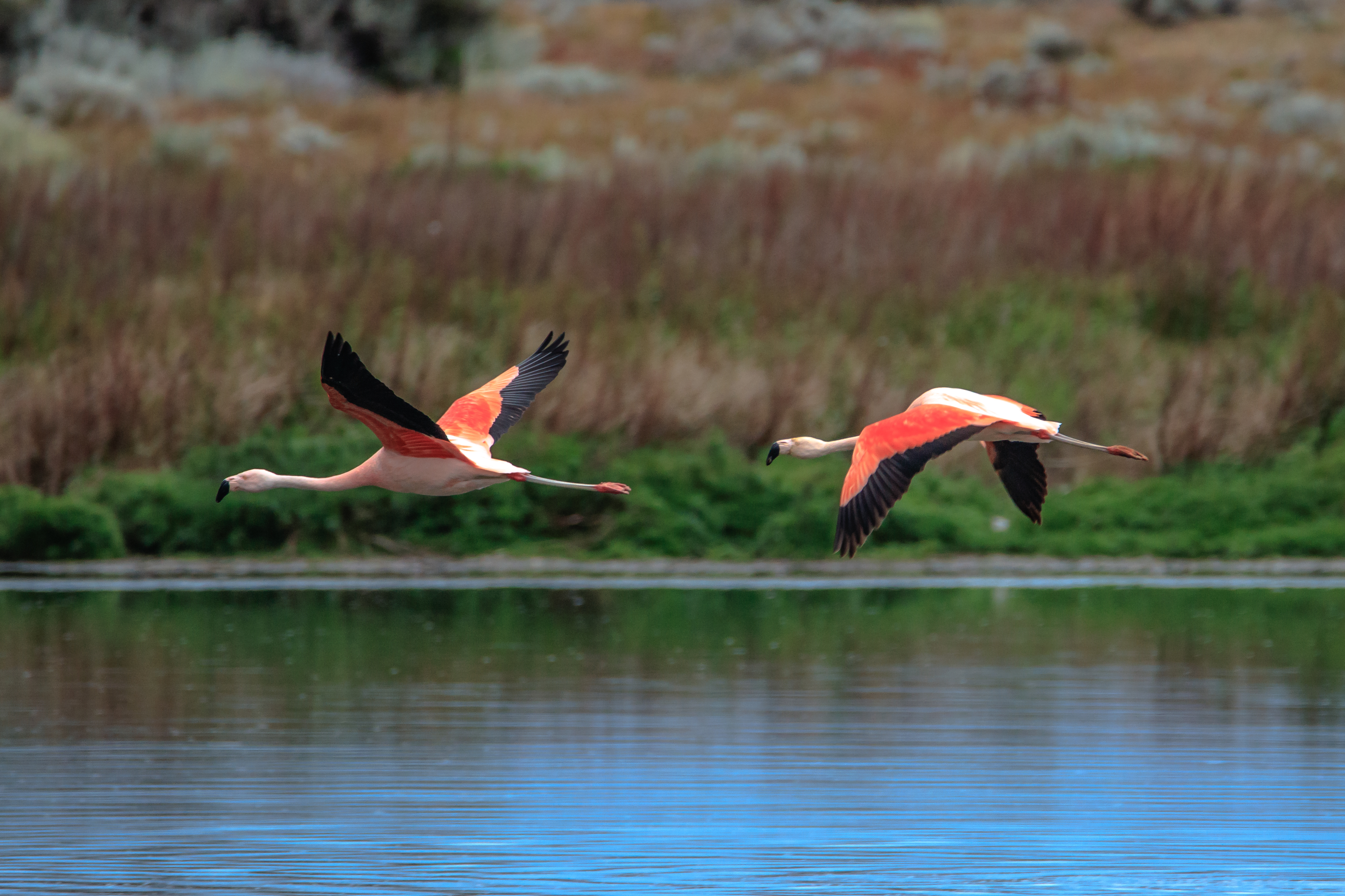 wildlife in and around Reserva Laguna Nimez in El Calafate, Argentina...Chilaen Flamingo (Phoenicopterus chilensis)...